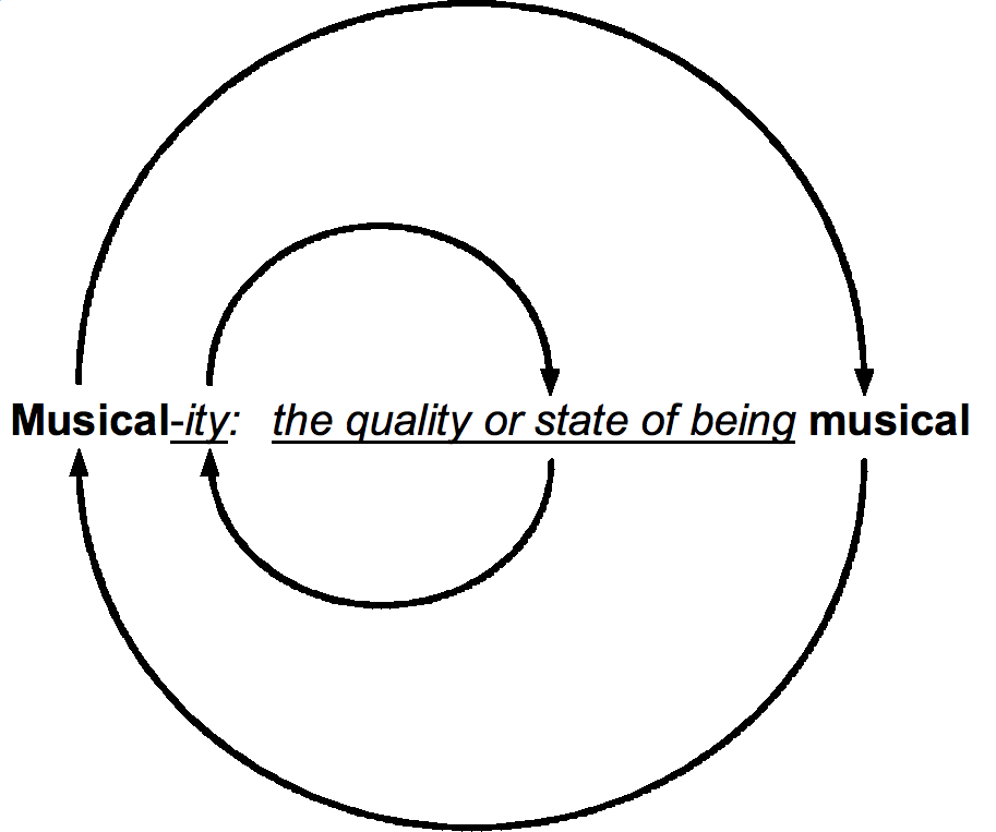 Circular definition of musicality. No other definition is possible given that there is no definition of music (but I know't when I herr it).